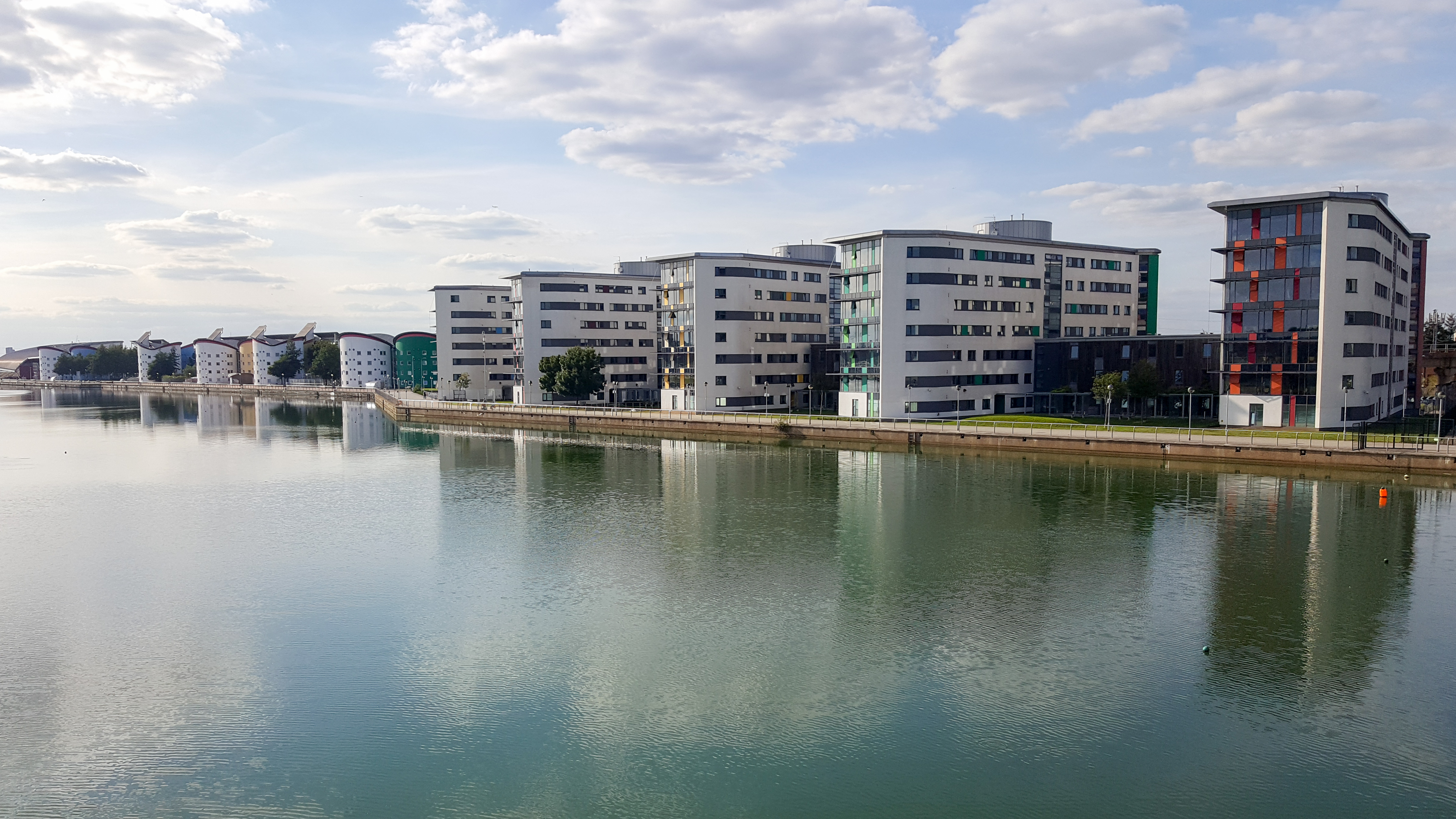 The University of East London Docklands Campus viewed from Sir Steve Redgrave bridge